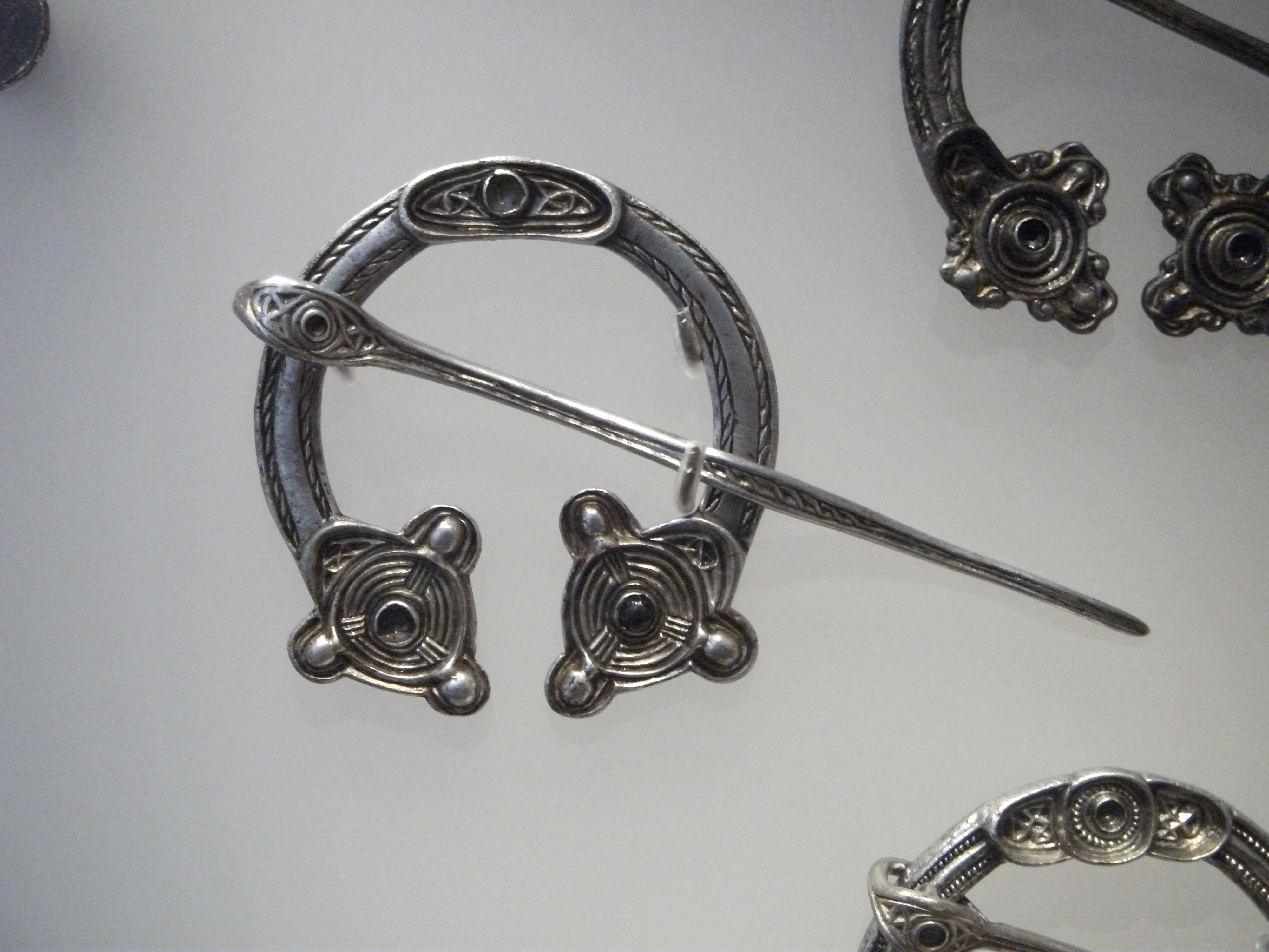 St Ninian's Isle Treasure